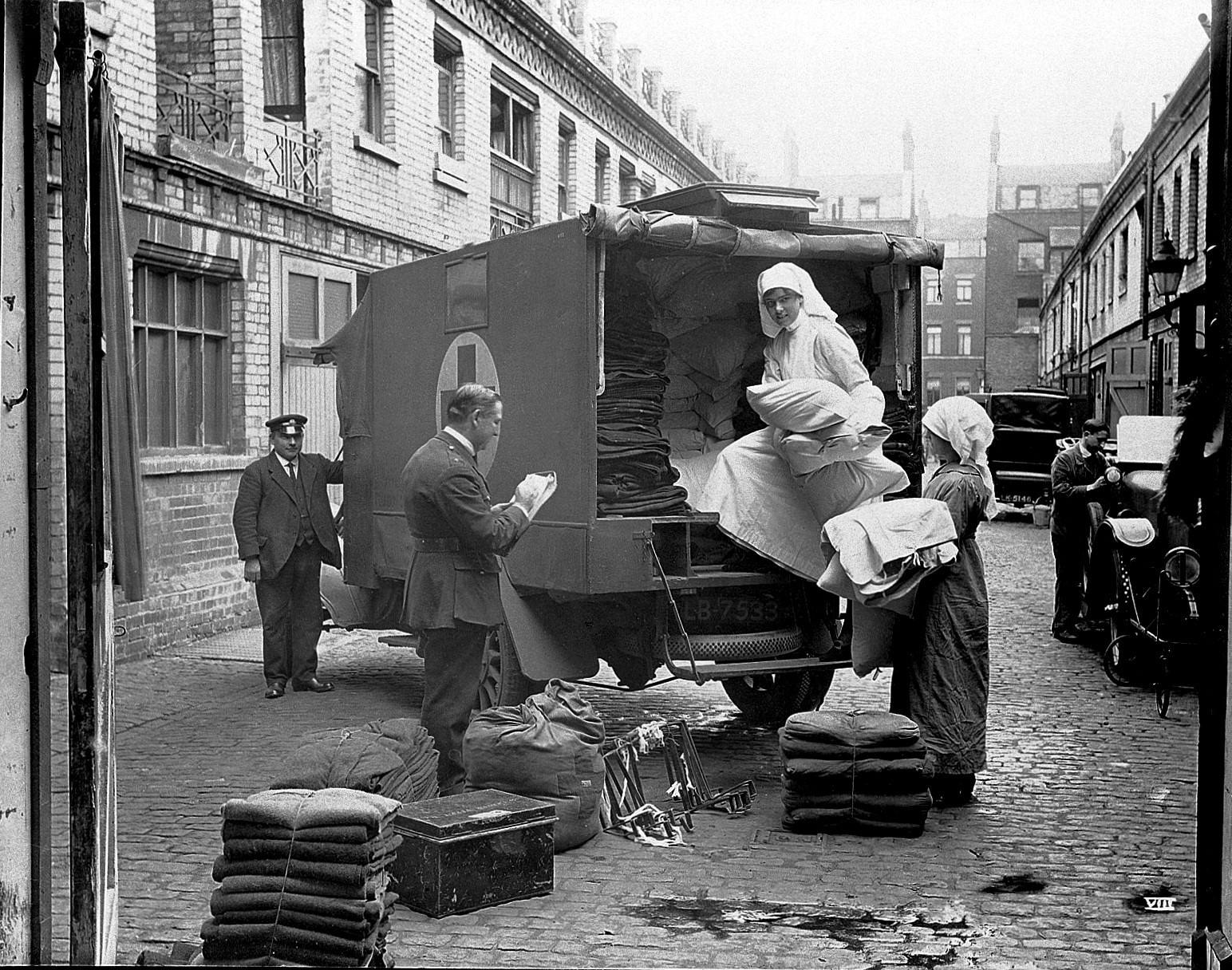 Ambulance Column depot, 9 Gower Street, London: loading up the blanket bus in Gower Mews. Photograph, September 1918. Iconographic Collections Keywords: Military History; World War One; Military Medicine; Ambulance Column Depot (9 Gower Street, London)